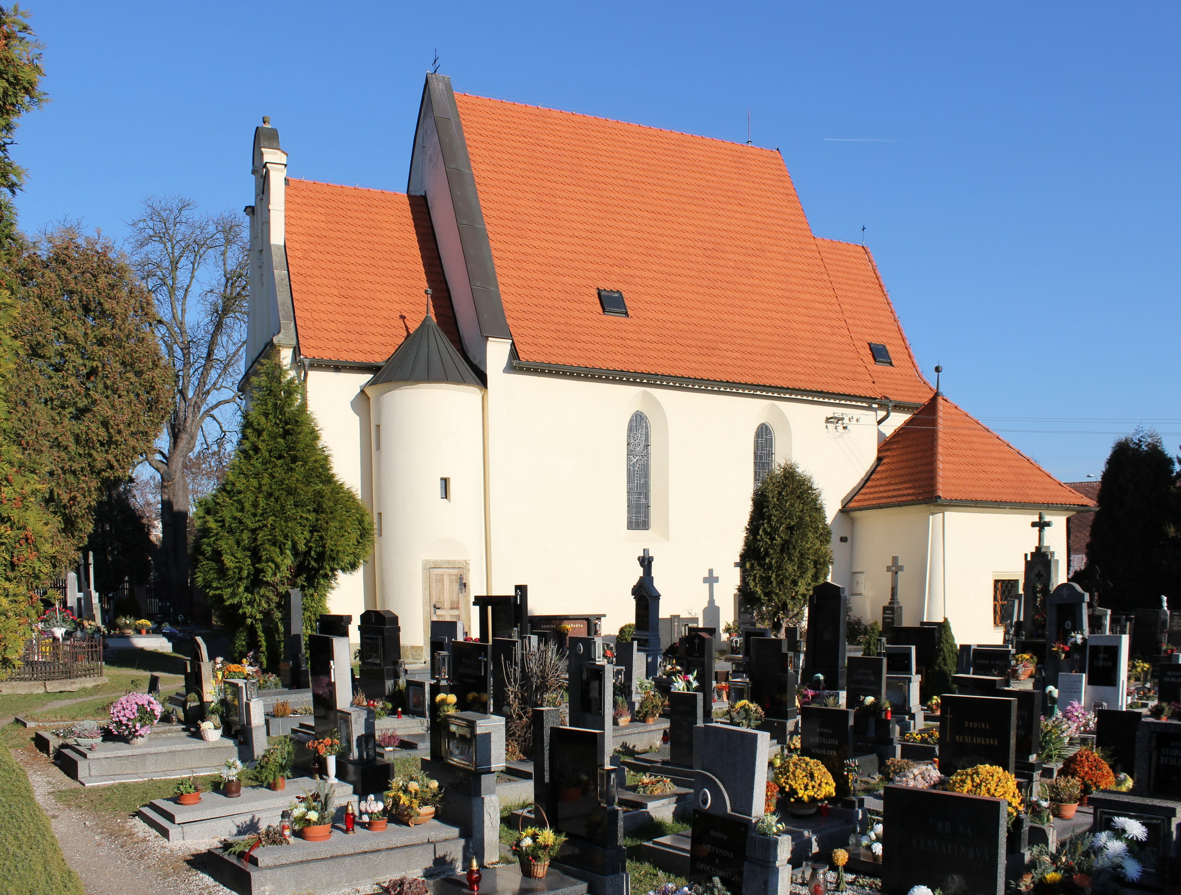 Church of Saint Giles in Pardubice, Southwest view. This photograph was taken with a DSLR from WMCZ's Camera grant.